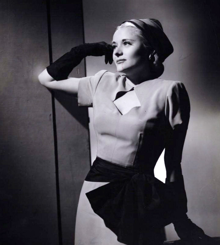 Photo of actress Betty Lawford, the cousin of actor Peter Lawford.